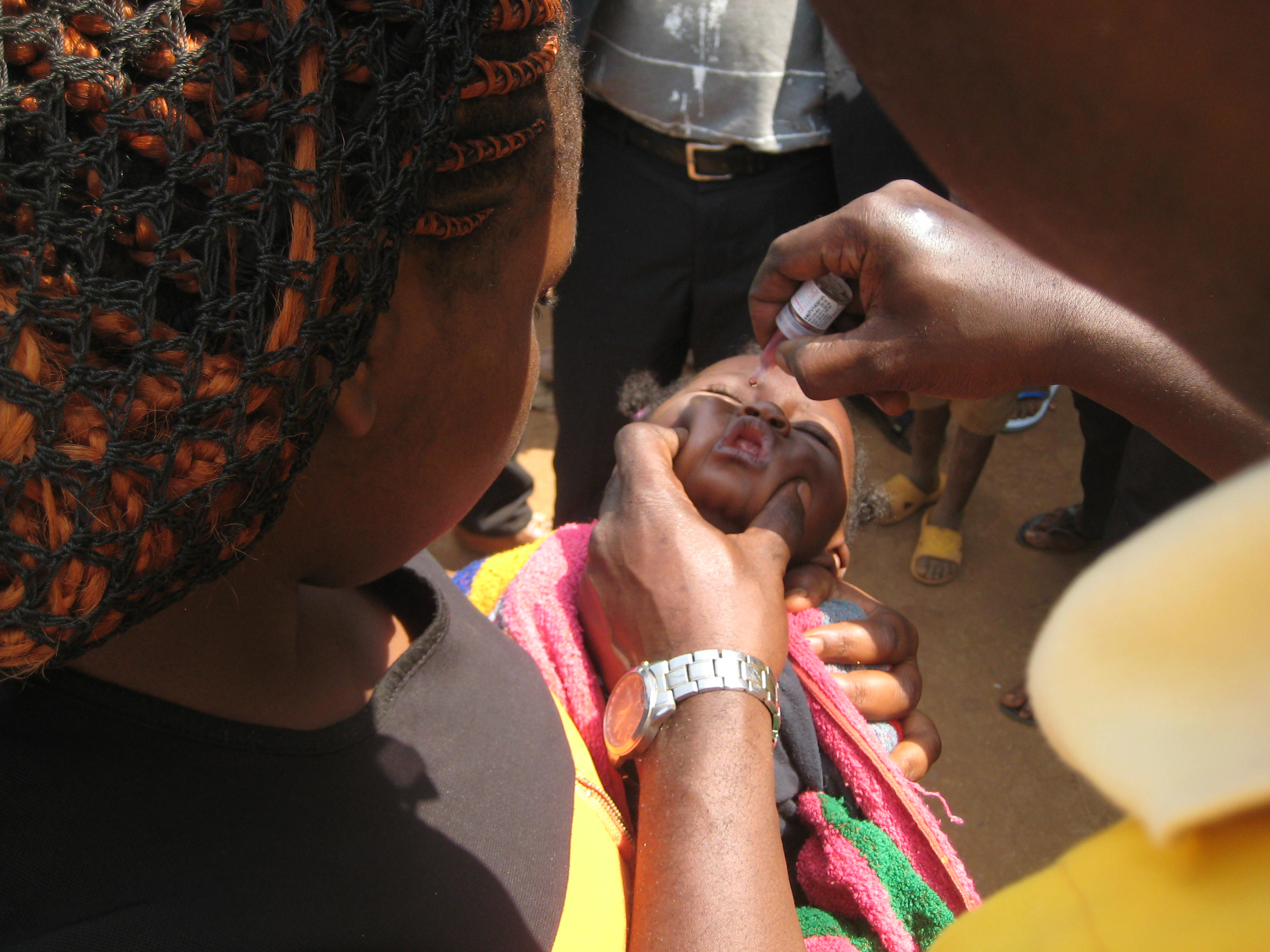 In 2016, there were only four cases of wild poliovirus in sub-Saharan Africa, all detected in Nigeria, the last polio-endemic country in Africa. In an effort to reach and protect children not reached by routine immunization services, oral polio immunization campaigns are being conducted in several African countries, with support from technical staff from CDC’s Global Immunization Division. Cameroon: A child in the arms of her mother receiving her dose of the oral polio vaccine. Photo credit: Louie Rosencrans/CDC